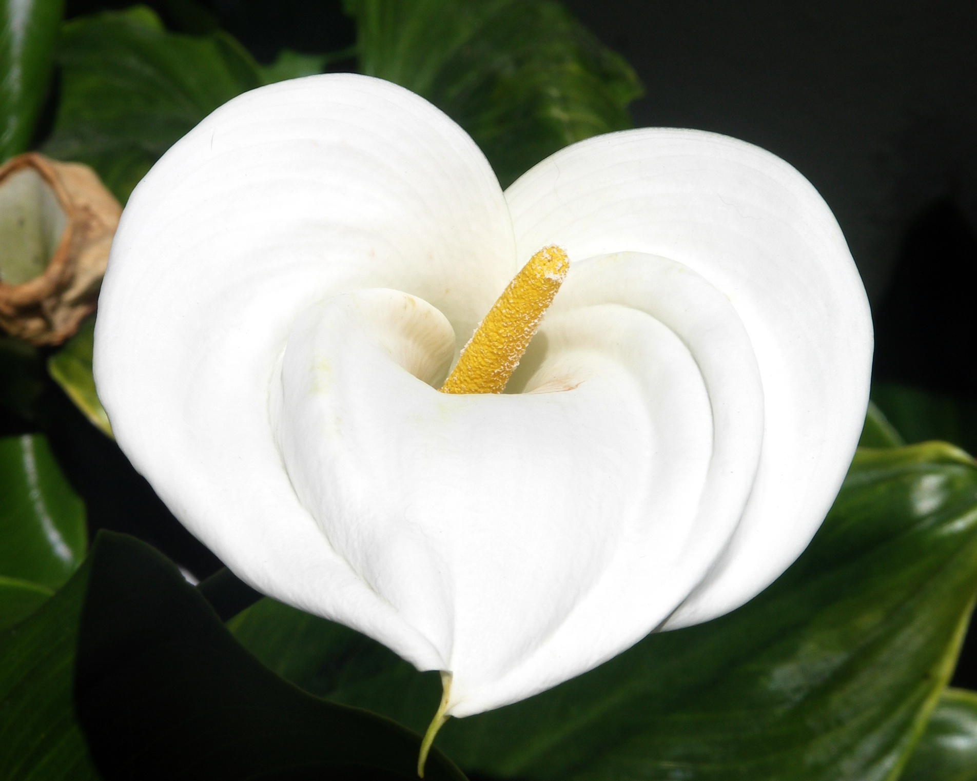 Arum lilly (Zantedeschia aethiopica)